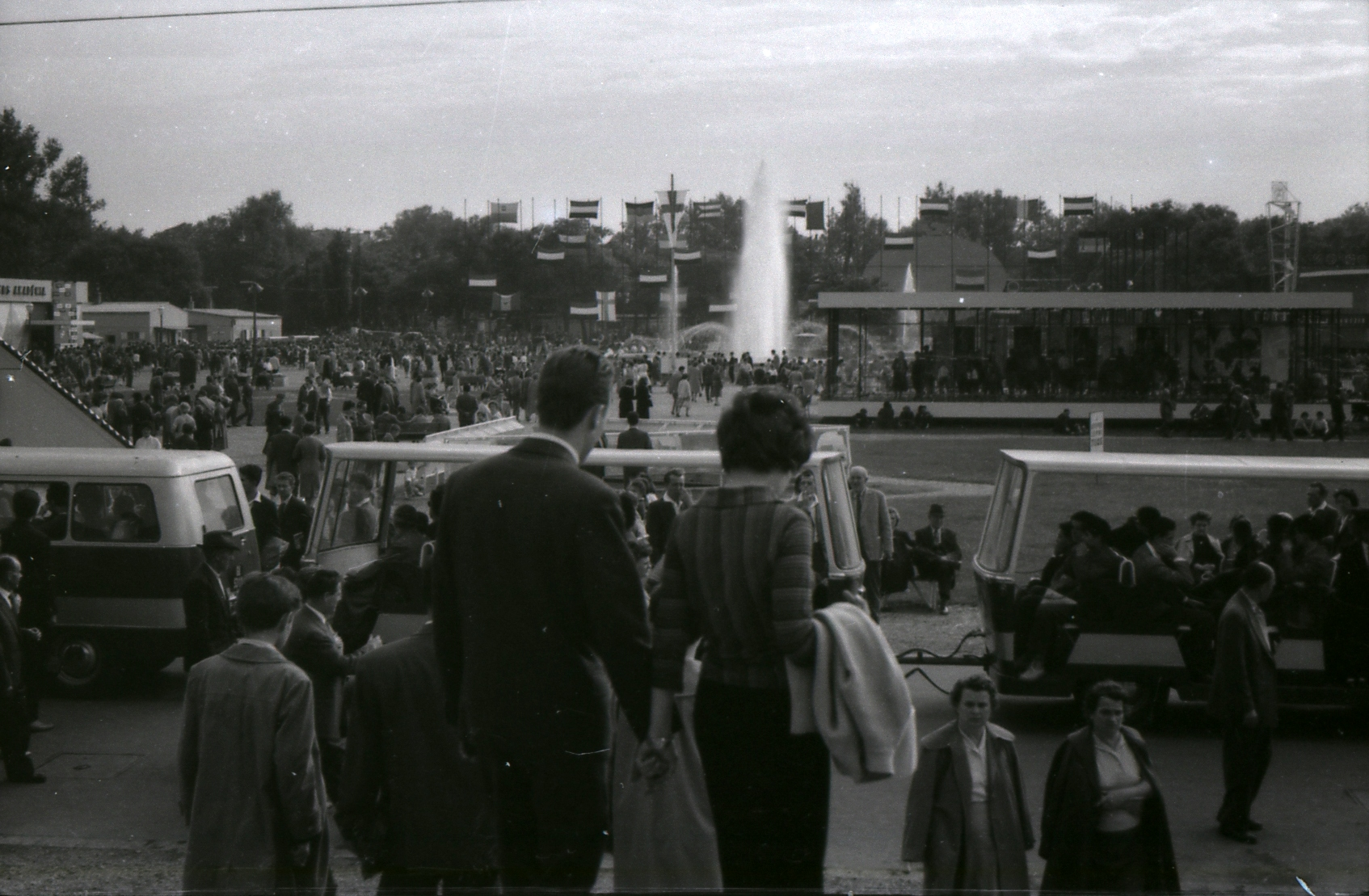 1962 Budapest International Fair, Central Square